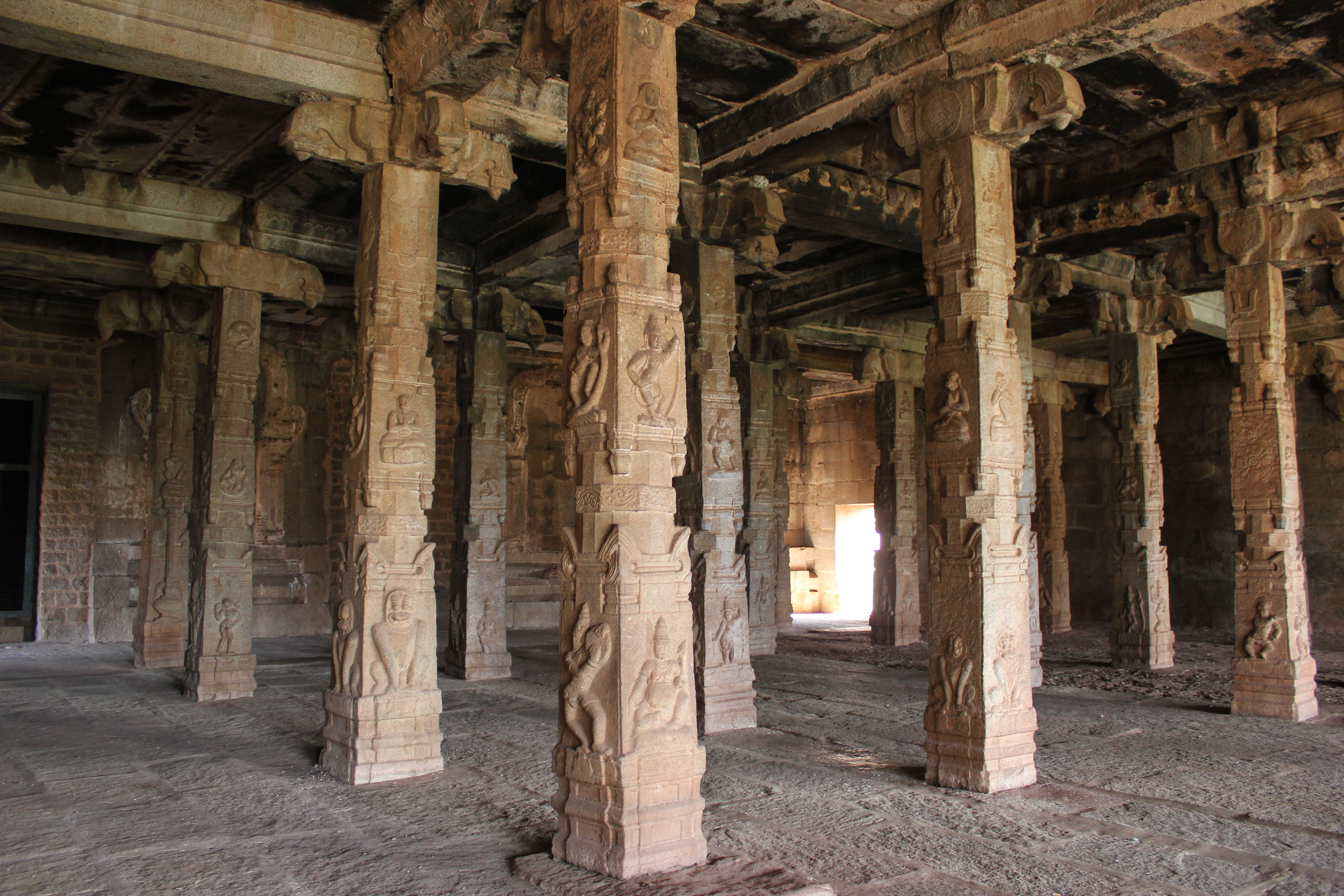 This photograph was taken by me at the Ananthasayana temple in Ananthasayanagudi, Bellary district, Karnataka state, India. The temple was constructed by King Krishnadeva Raya (1524 AD) of the Vijayanagara Empire, in memory of his deceased son.